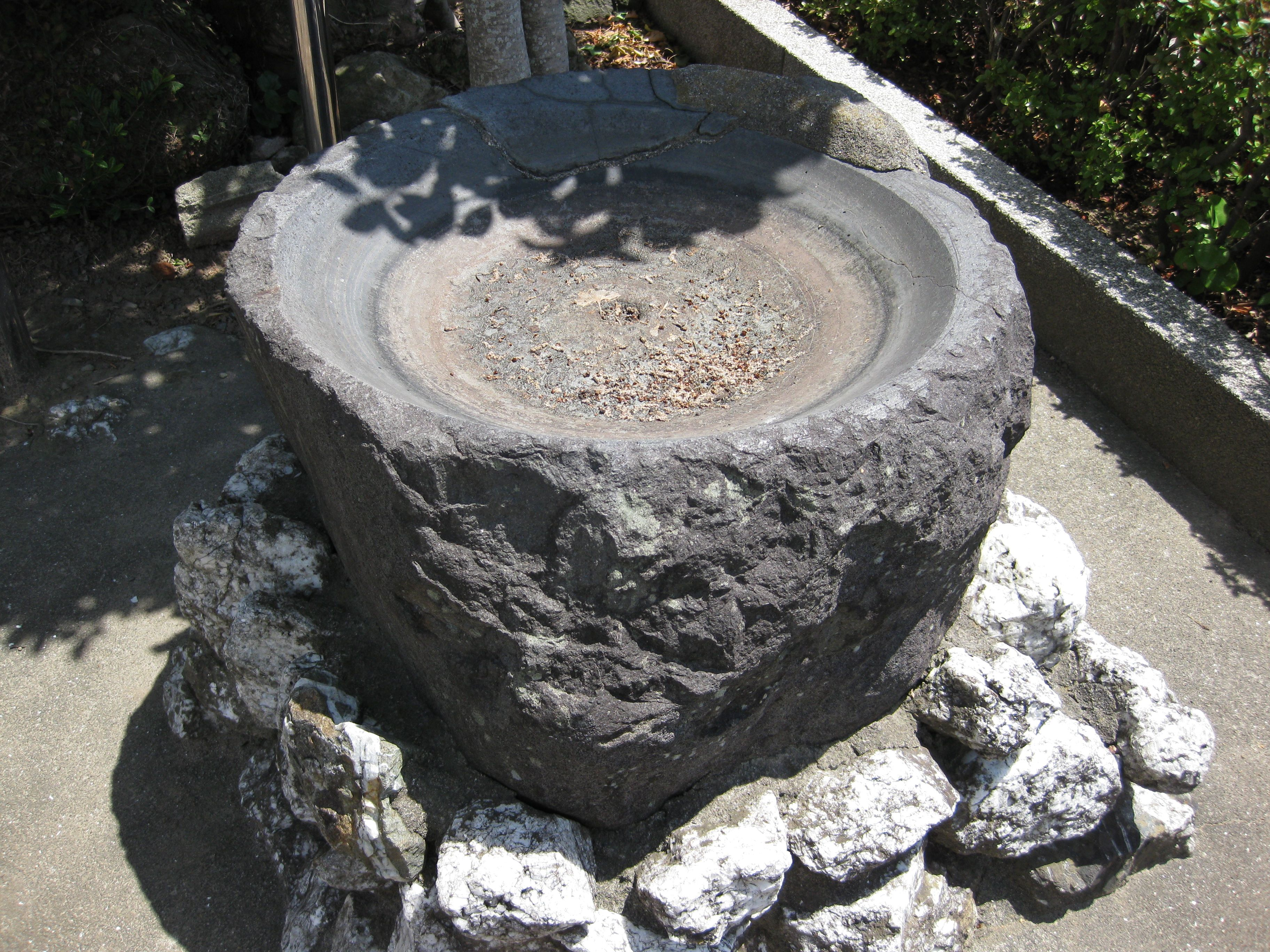 Millstone of Kushikino Mine, Japan